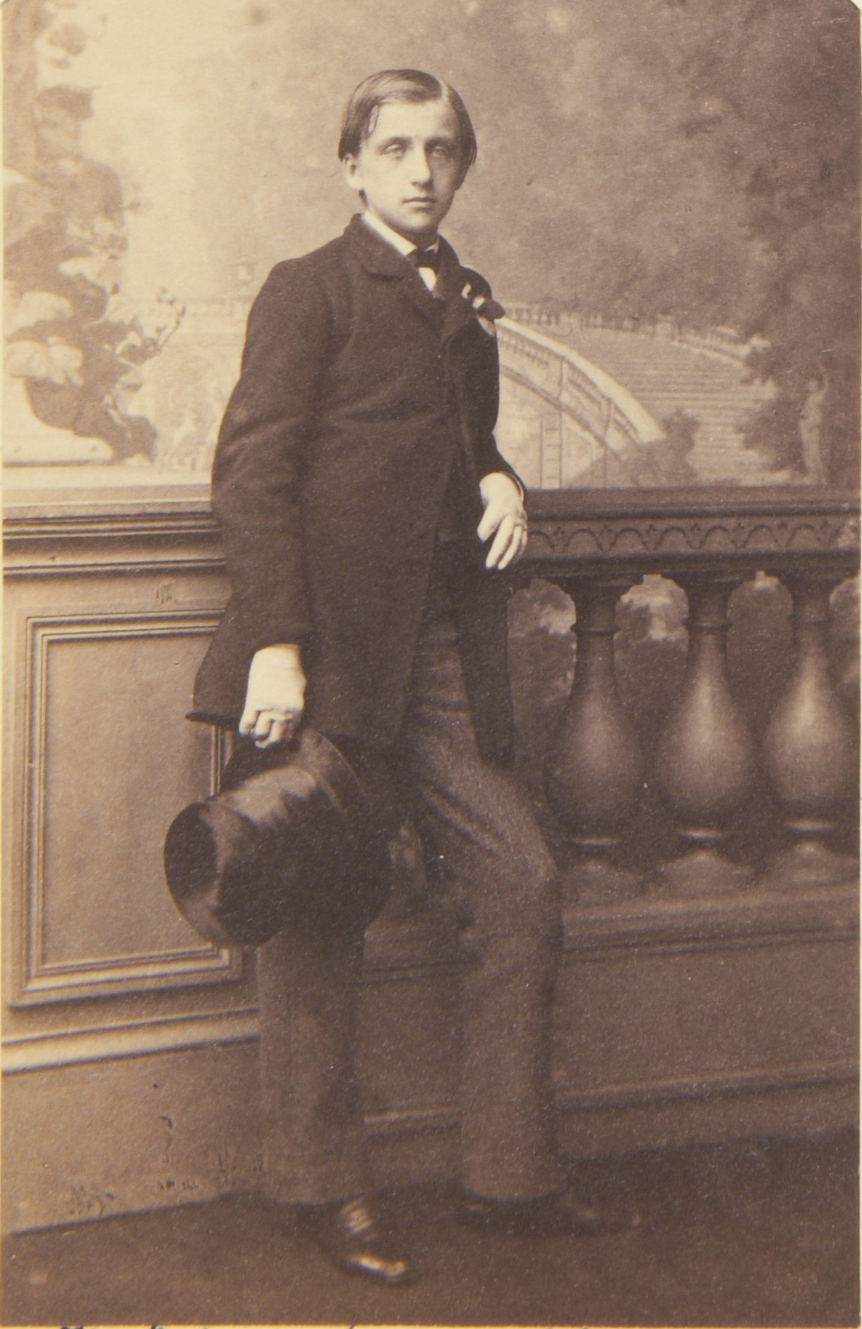 Photo of Prince Louis of Orléans, Prince of Condé (1845-1866)